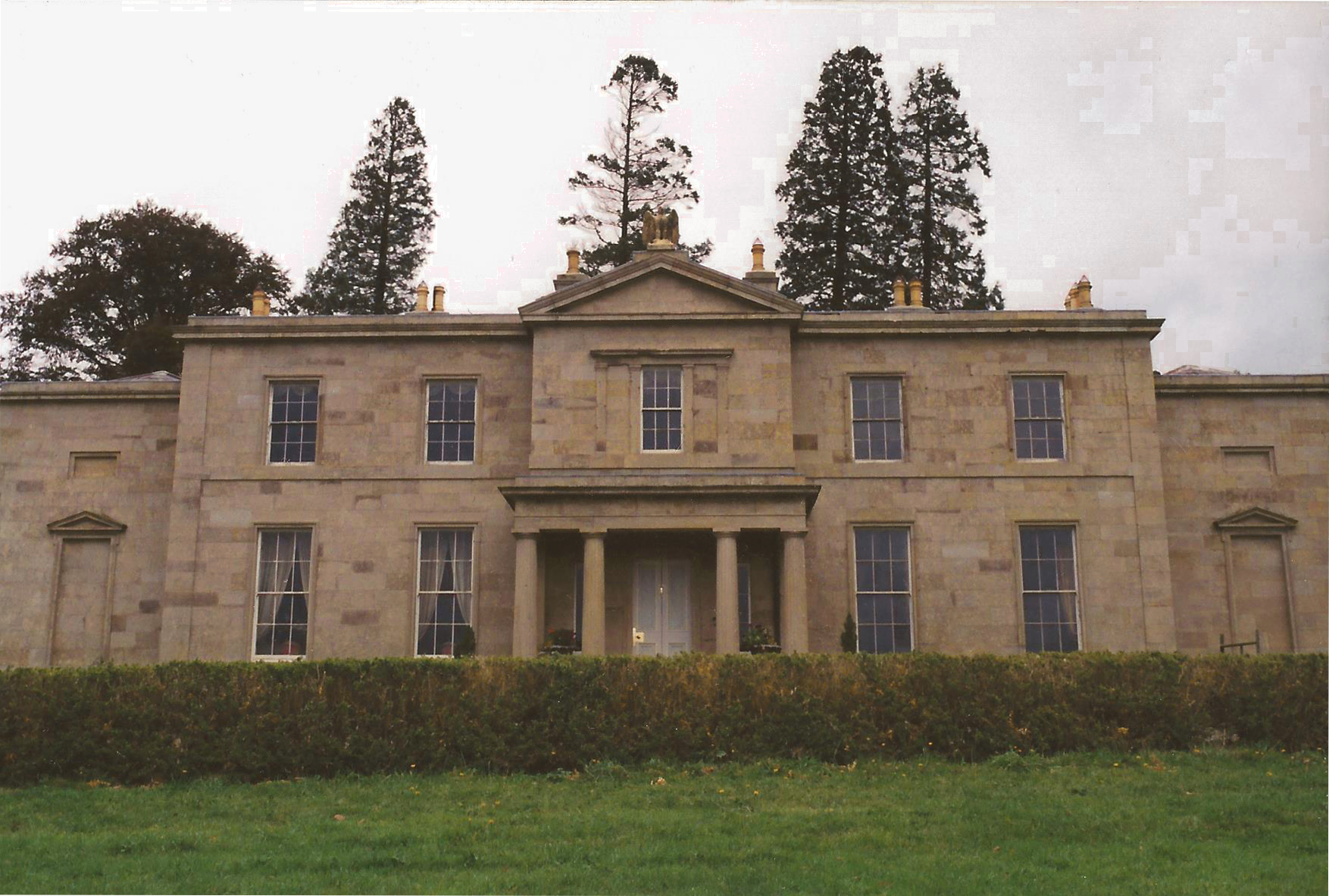 Capard House